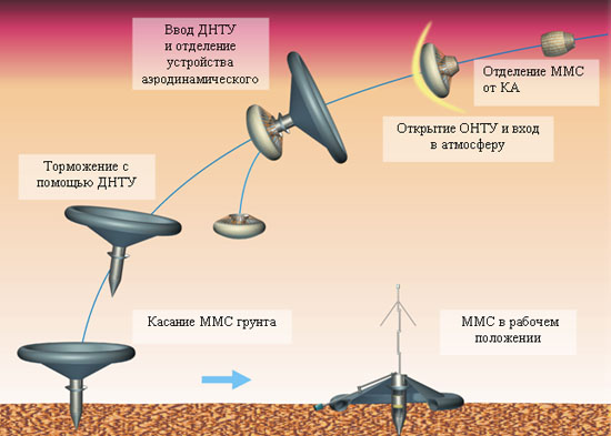 Metnet Landing Concept